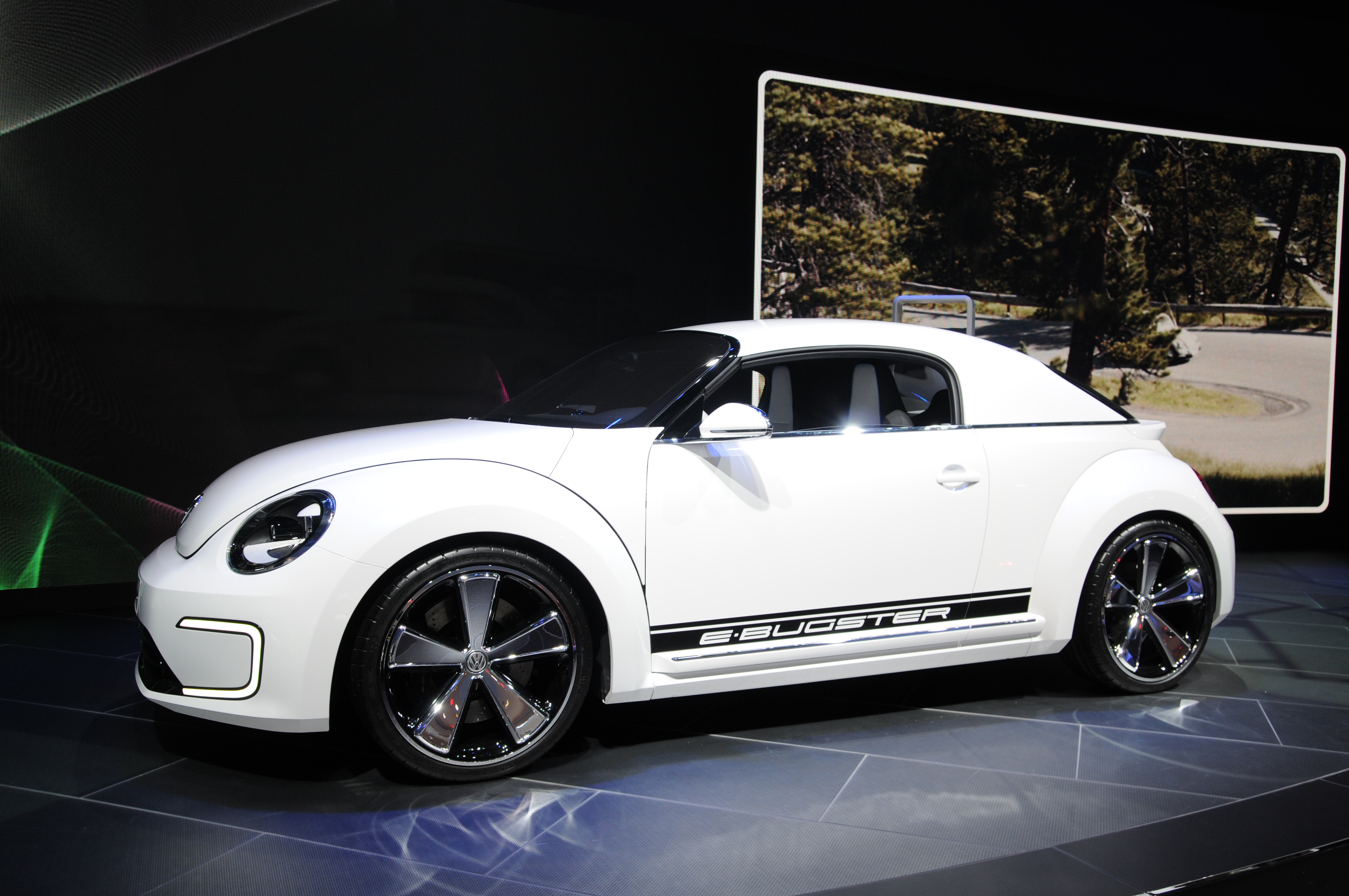 Geneva Motor Show 2012 (photos taken on the second press day)